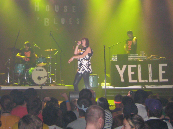 The first stop on Yelle/Kap10Kurt North American tour. House of Bluse in Dallas, TX